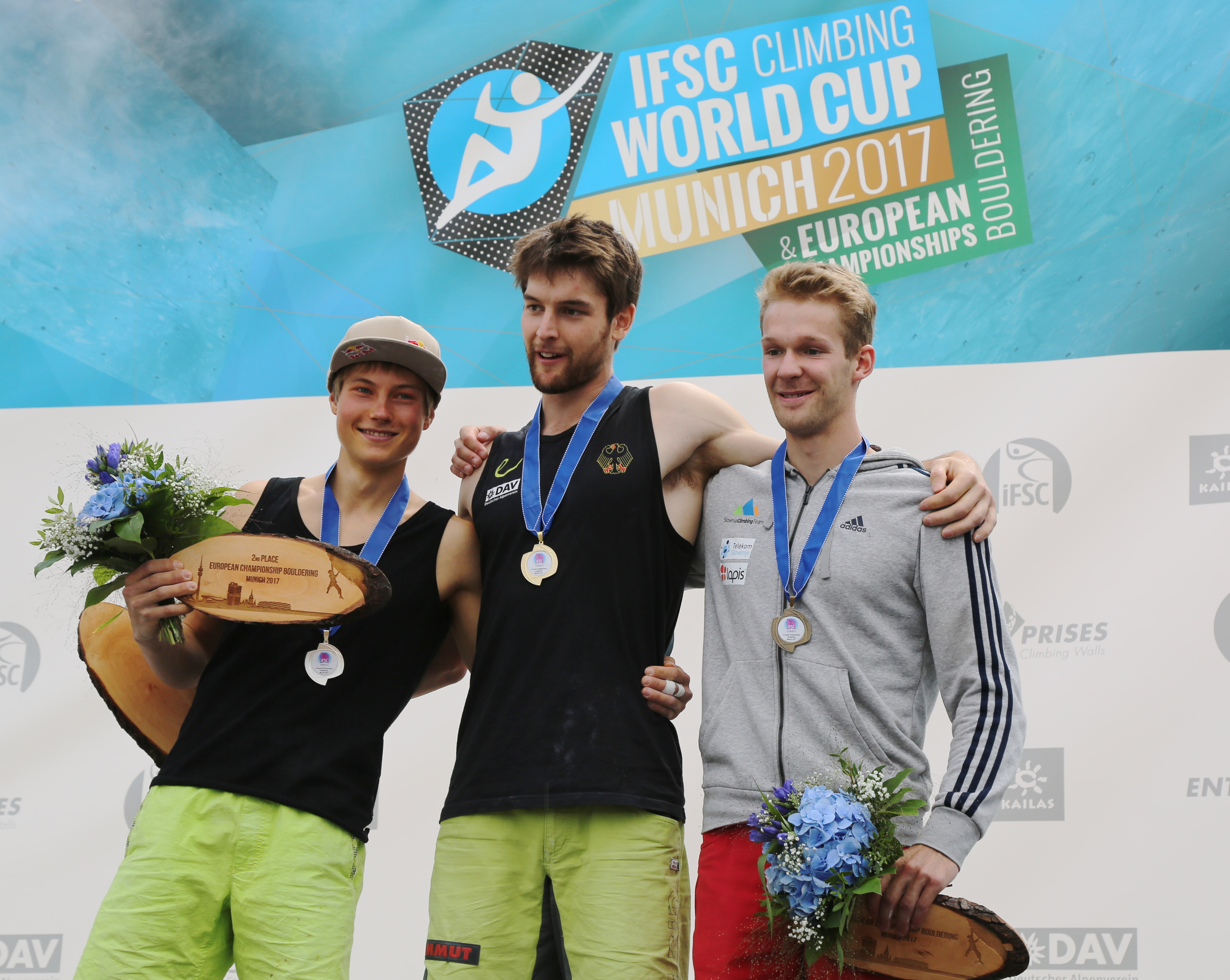 Bouldering European Championship 2017, 1. Place: Jan Hojer GER, 2. Place: Alex Megos GER, 3. Place Anze Peharc SLO